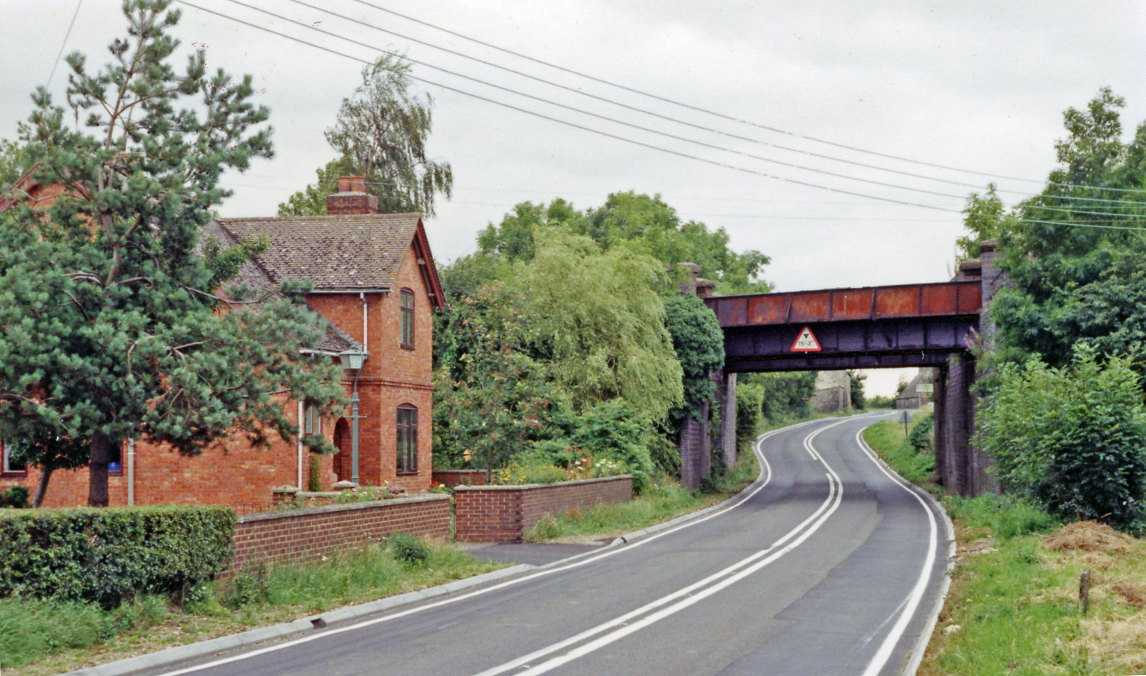 Site of former Finmere station, 1991. View NE on A4421 (Oxford - Buckingham) road, towards Finmere village. The bridge carried the ex-GCR London Extension line, closed 5/9/66: to left Woodford Halse, Leicester etc., to right Princes Risborough/Aylesbury and London Marylebone. The station had been on the left and was closed to passengers 4/3/63, to goods 5/10/64. (Cf. SP6231 : A4421 heading into Newton Purcell). (The bridge is still there and the formation of the London Extension could have been redeveloped for High-Speed 2).